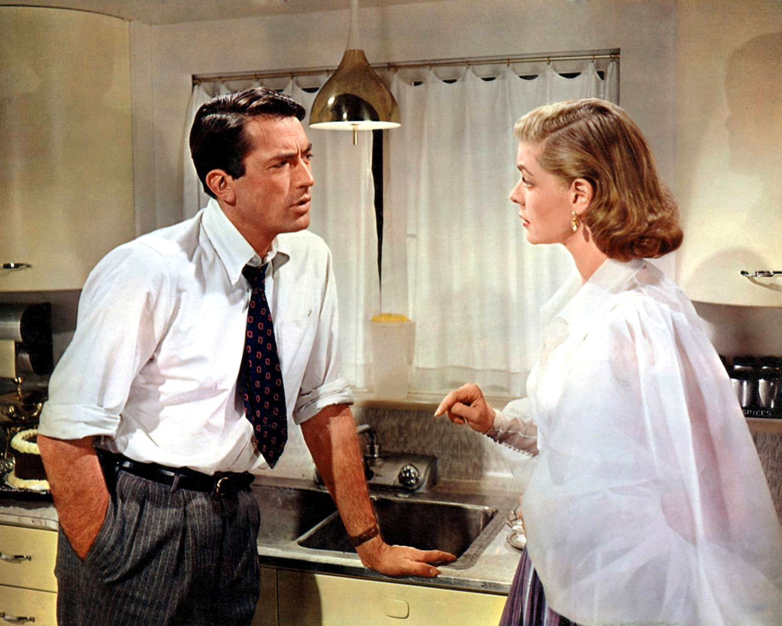 Gregory Peck & Lauren Bacall publicity photo for the film Designing Woman, 1957